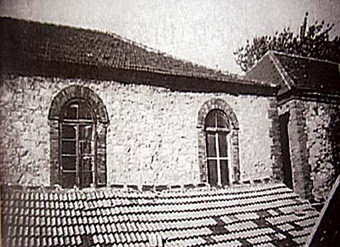 Historical photograph of buildings belonging to the Luoyuan Academy (泺源书院) in Jinan.